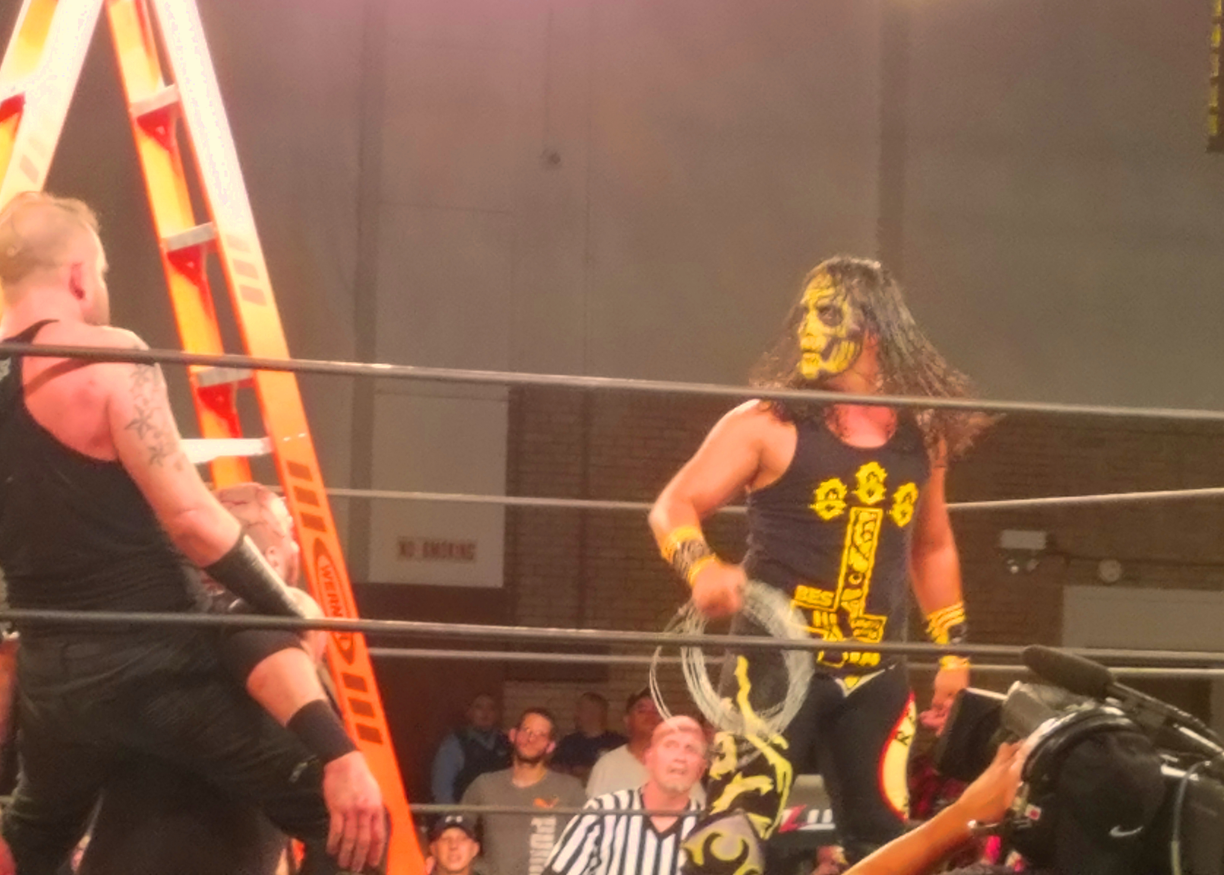 Bestia 666 (right) holds a bale of barbed wire about to strike Mance Warner (center) who is being held by Jimmy Havoc (left) during a "Stairway to Hell" match at MLW Saturday Night SuperFight on November 2, 2019 at Cicero Stadium in Cicero, Illinois.